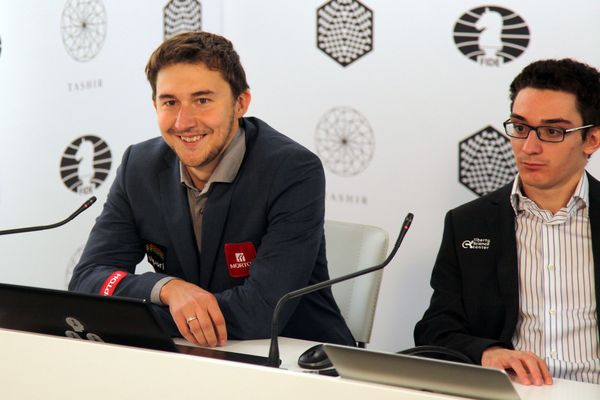 Sergey Karjakin and Fabiano Caruana, Candidates Tournament 2016